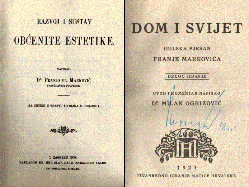 The cover pages of the Franjo Marković's works Razvoj i sustav obćenite estetike ('The development and the system of general æsthetics'), published in Zagreb in 1903, and the Dom i svijet ('The home and the world'), published in Zagreb in 1923.